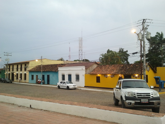 Street in Clarines